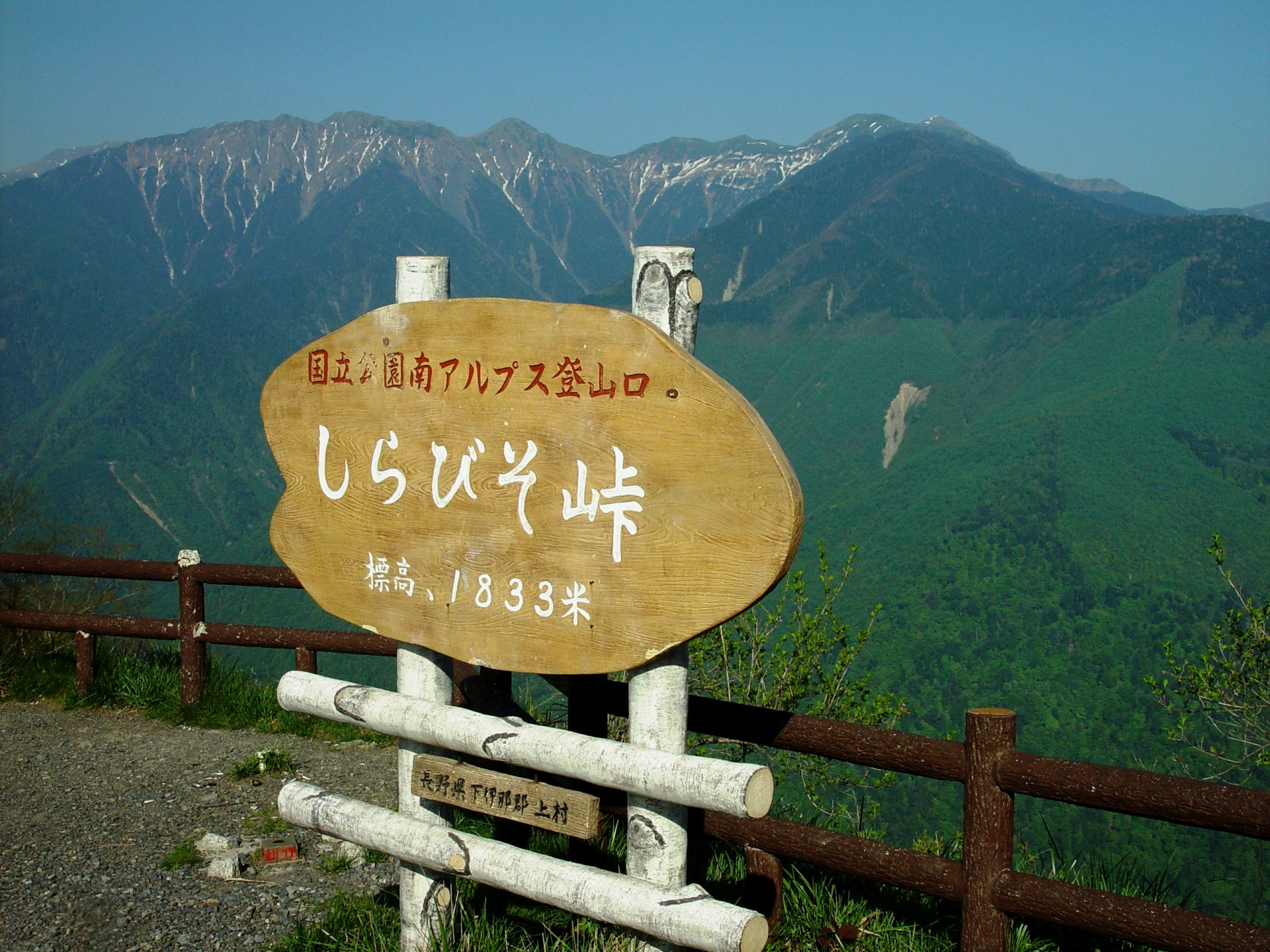 Shirabiso Pass and Akaishi Mountain